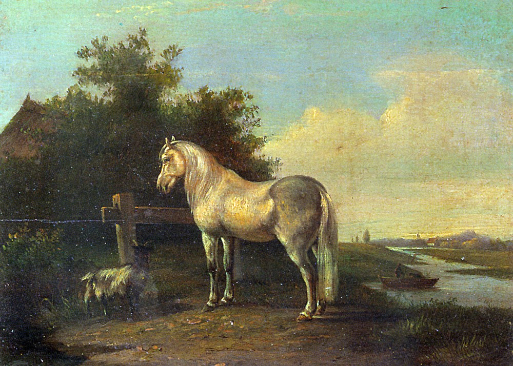 A Grey Horse and a Goat in a River Landscape